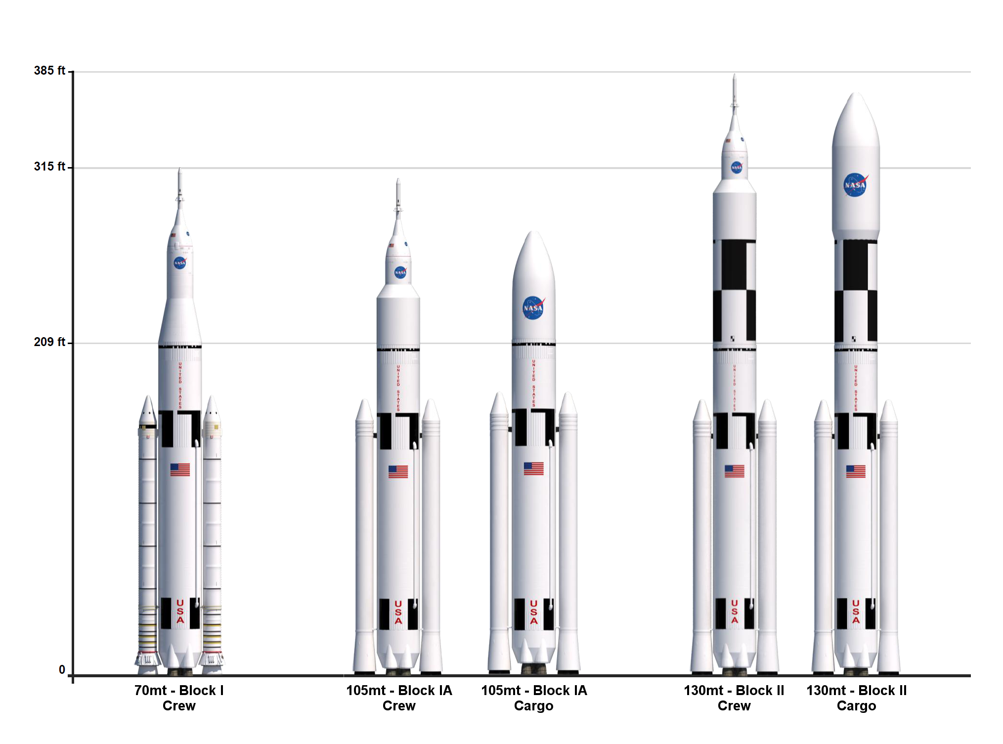 Artist rendering of the planned configurations of NASA's Space Launch System.